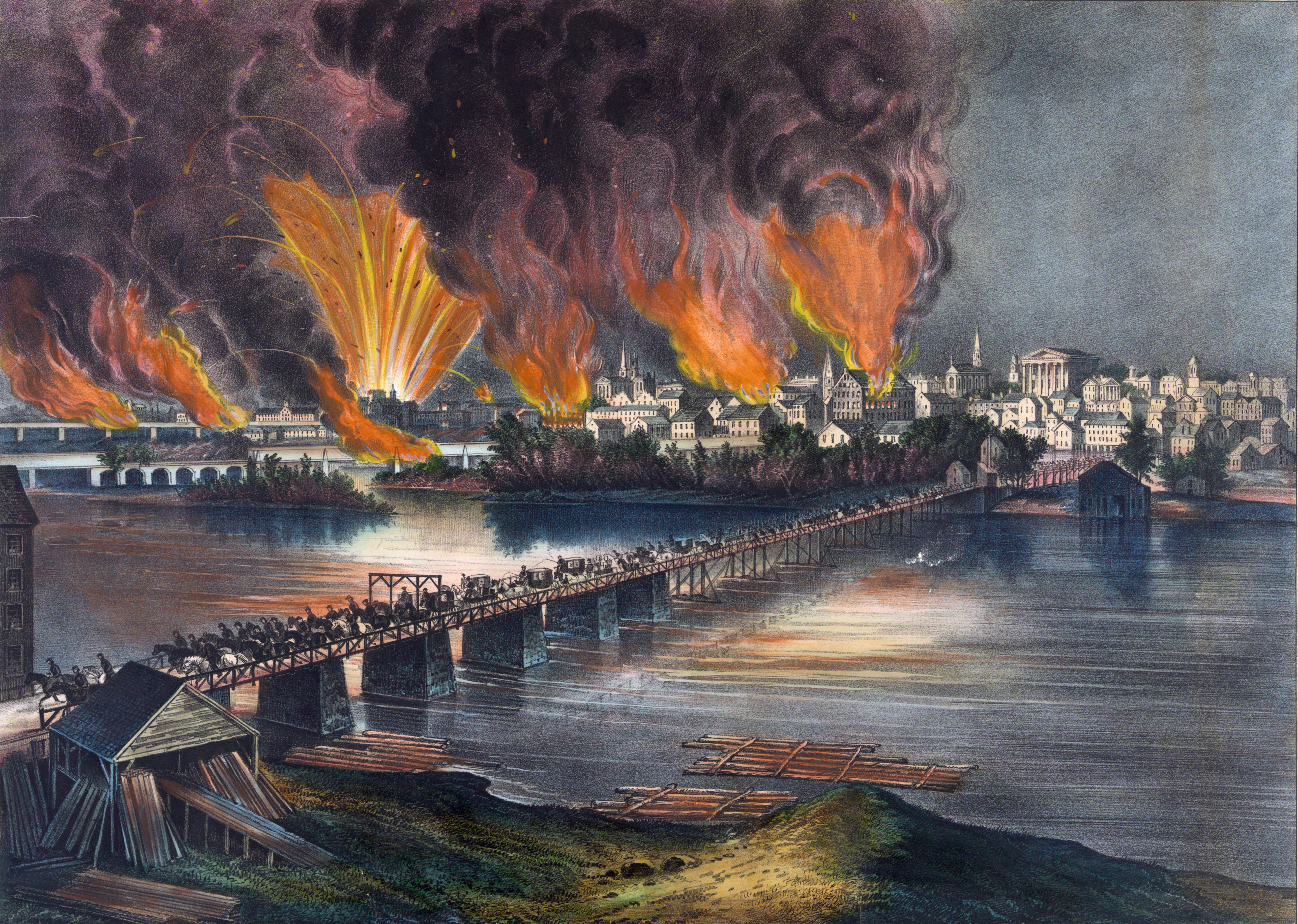 "The Fall of Richmond, Va. on the Night of April 2d. 1865", a lithograph depicting the evacuation of Richmond at the end of the American Civil War, produced by Currier & Ives, New York (cropped from the original)